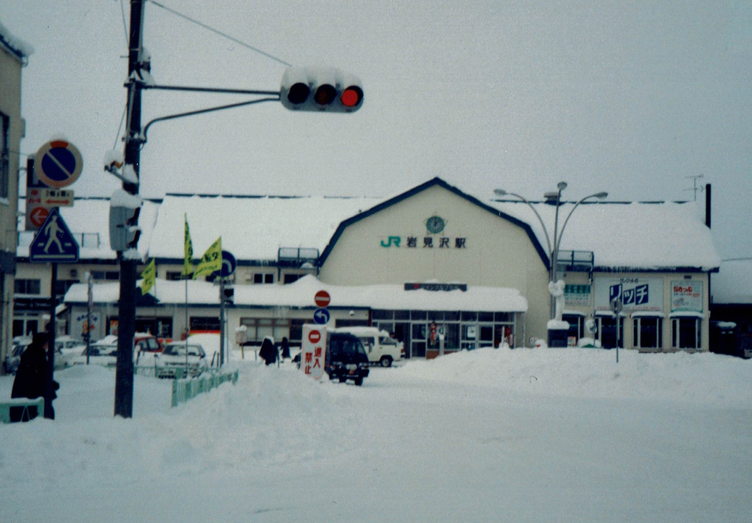 Iwamizawa Station in Hokkaido, Japan